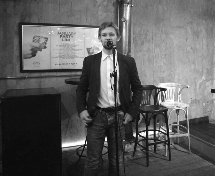 Denis Olegov as host of the event "2 years "Beyond the cover"